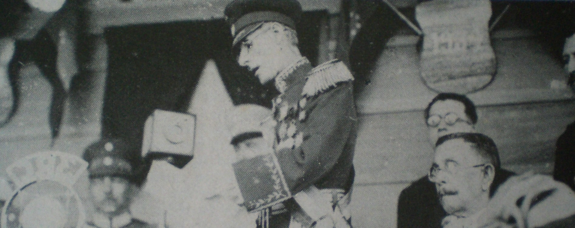 Eleazar López Contreras in Maracay, 1934.